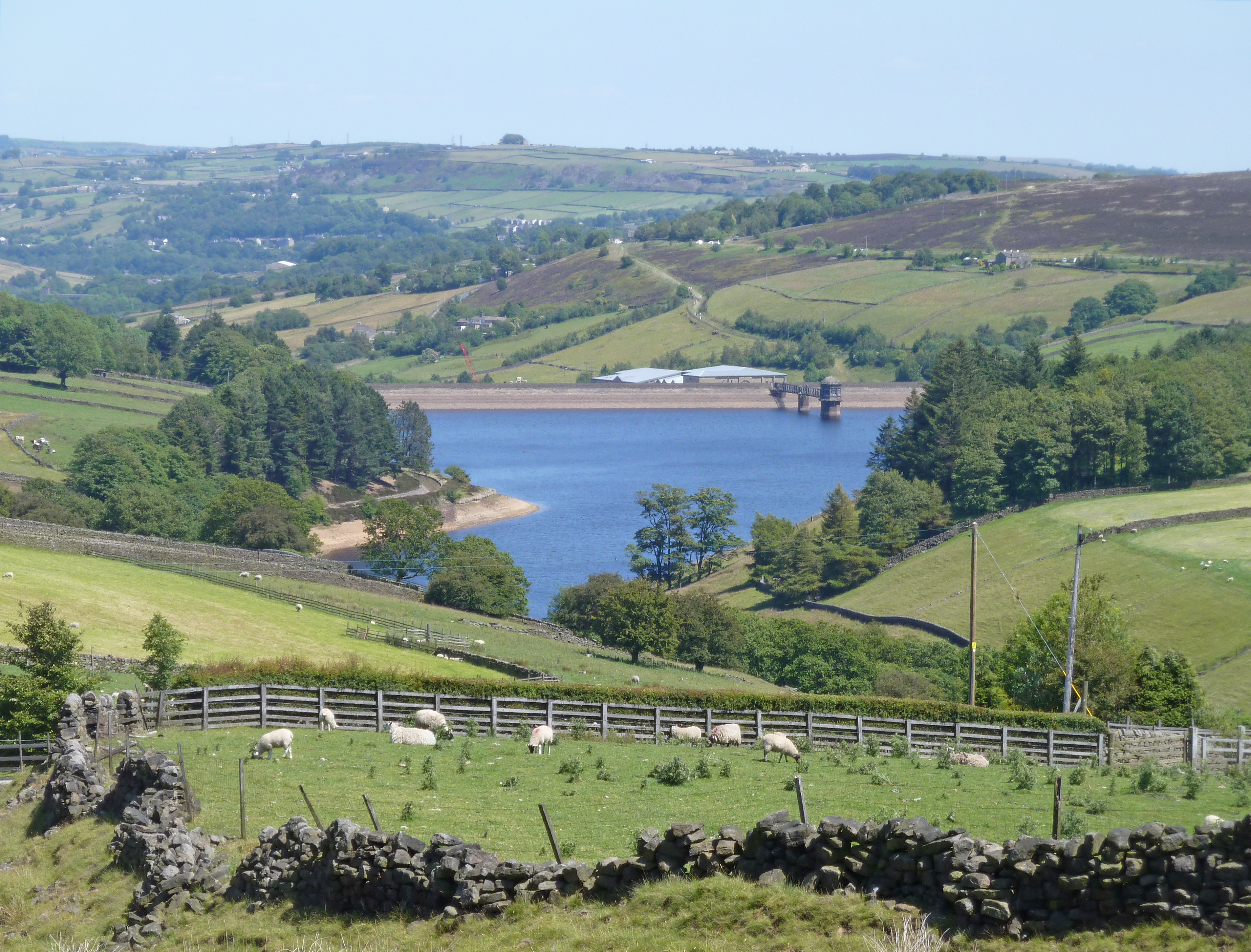 Photo upload #11111